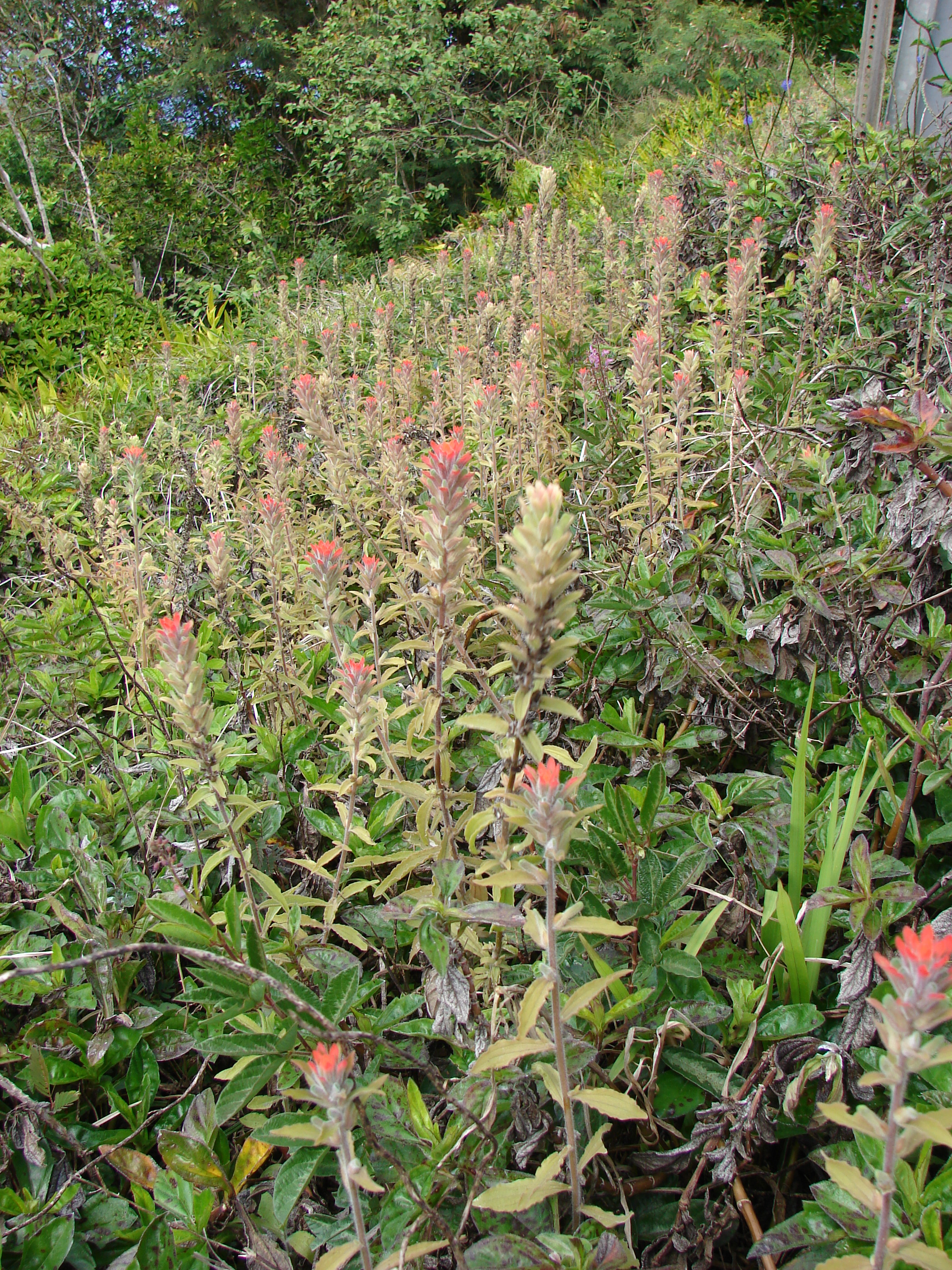 Castilleja arvensis (flowering habit). Location: Maui, Huelo Hana Hwy